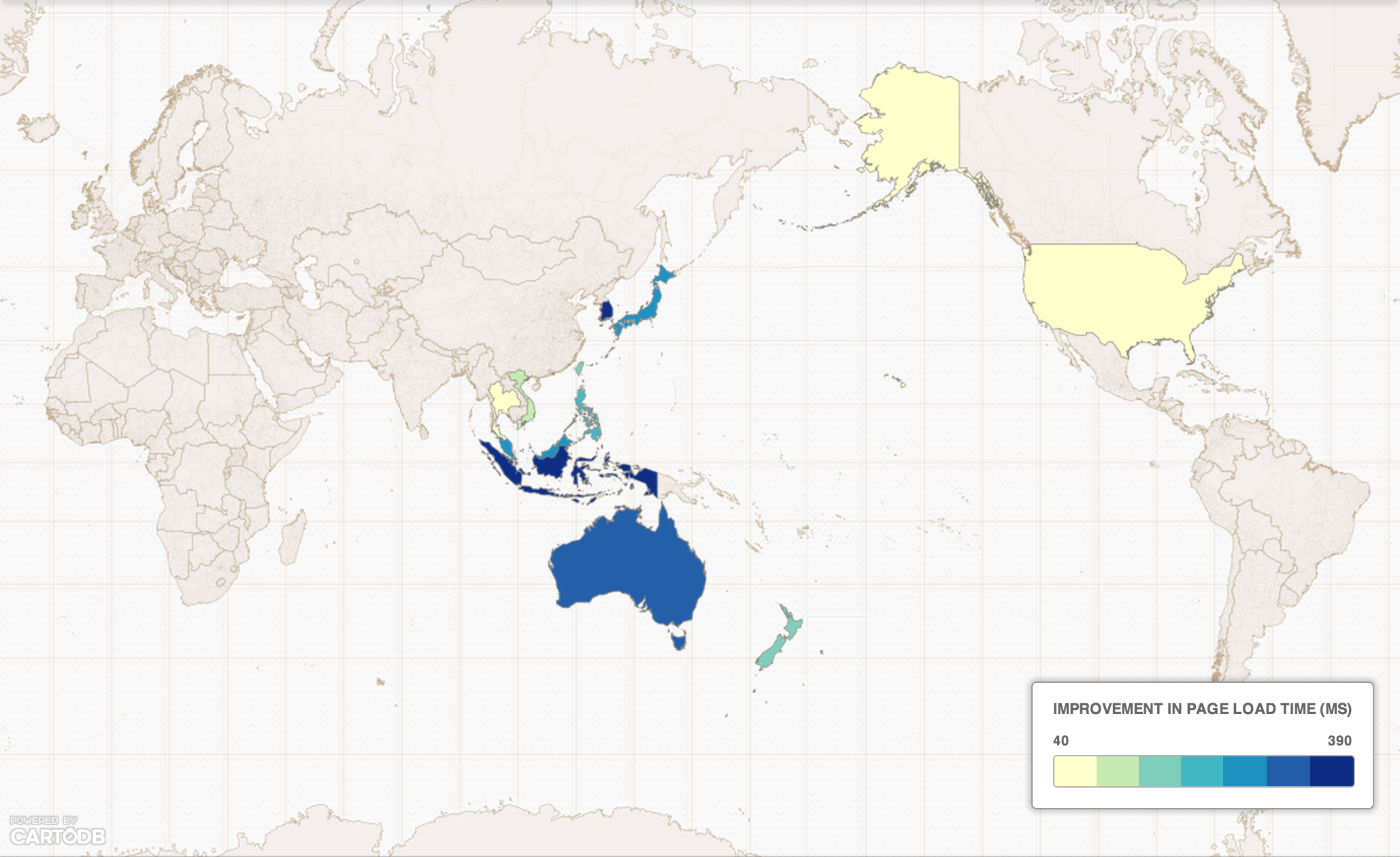 Improvement in Page Load Times on Wikipedia after the ULSFO datacenter deployment (mapped with CartoDB)